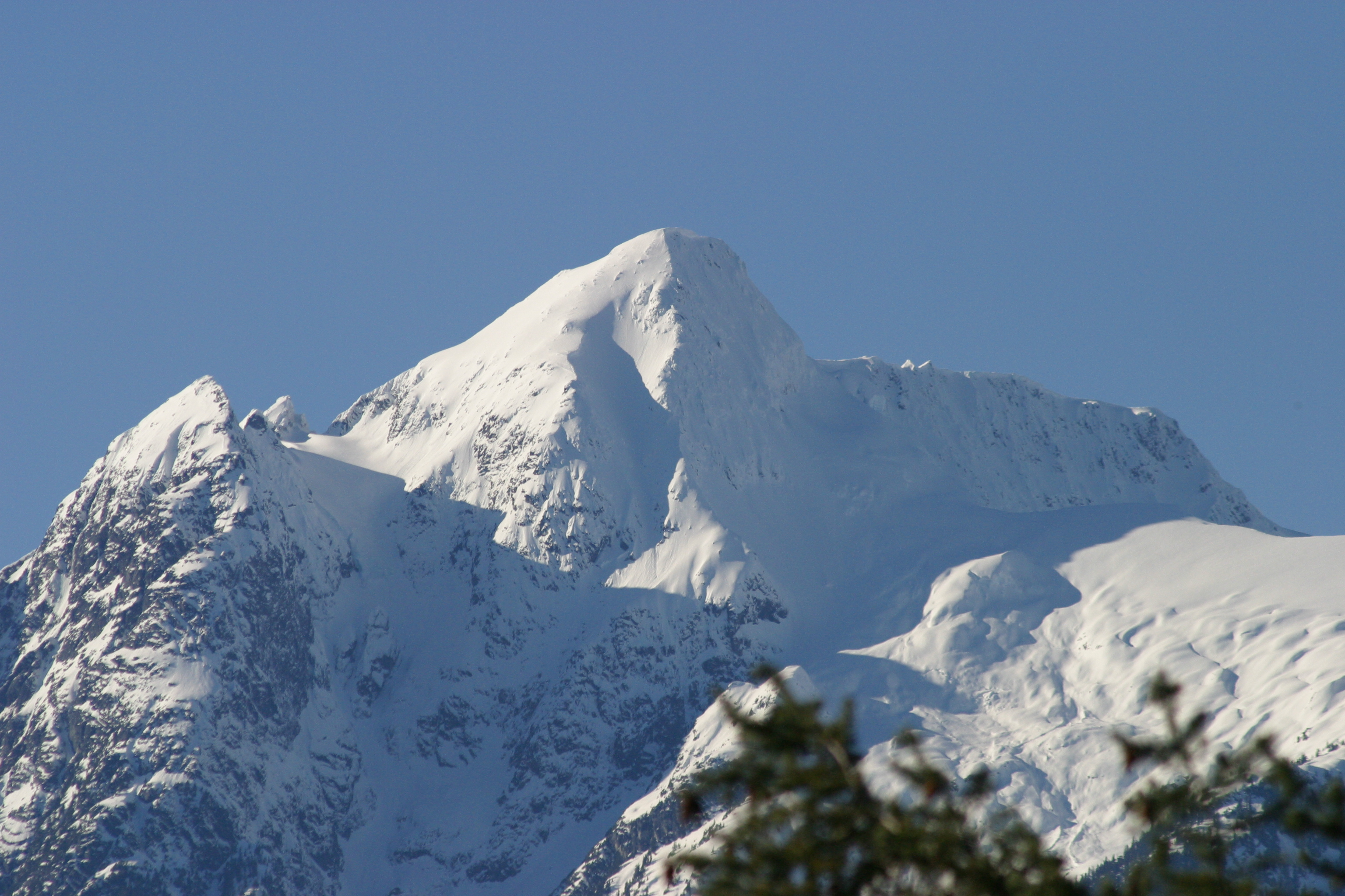 Mt. Alfred during late winter as seen from Jervis Inlet, British Columbia, Canada.